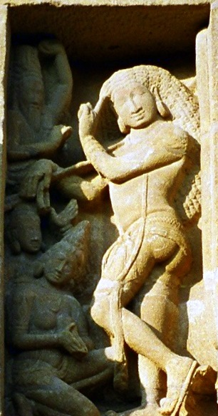 SHIVA Bhikshatana Kailasanathar Koil Kanchi, TN Kailashanathar Koil